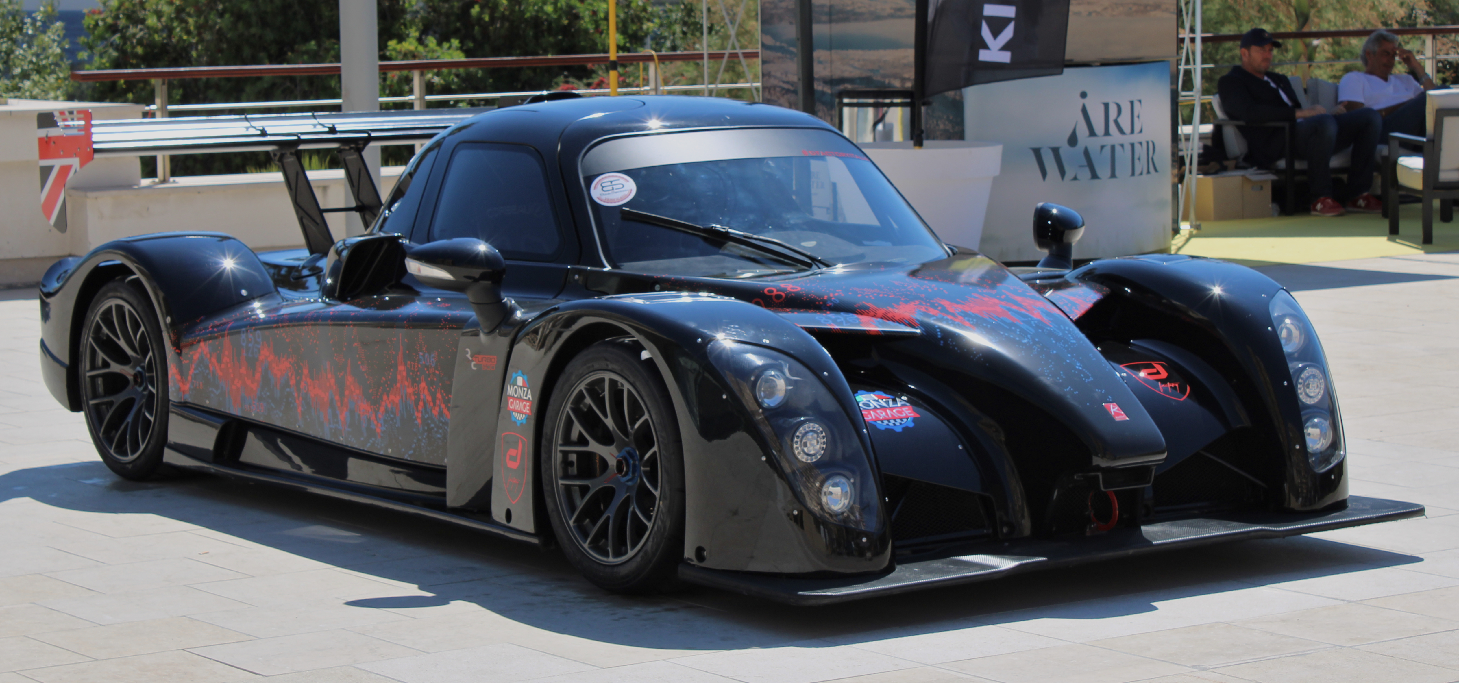 Radical RXC 500 Turbo at Top Marques 2019